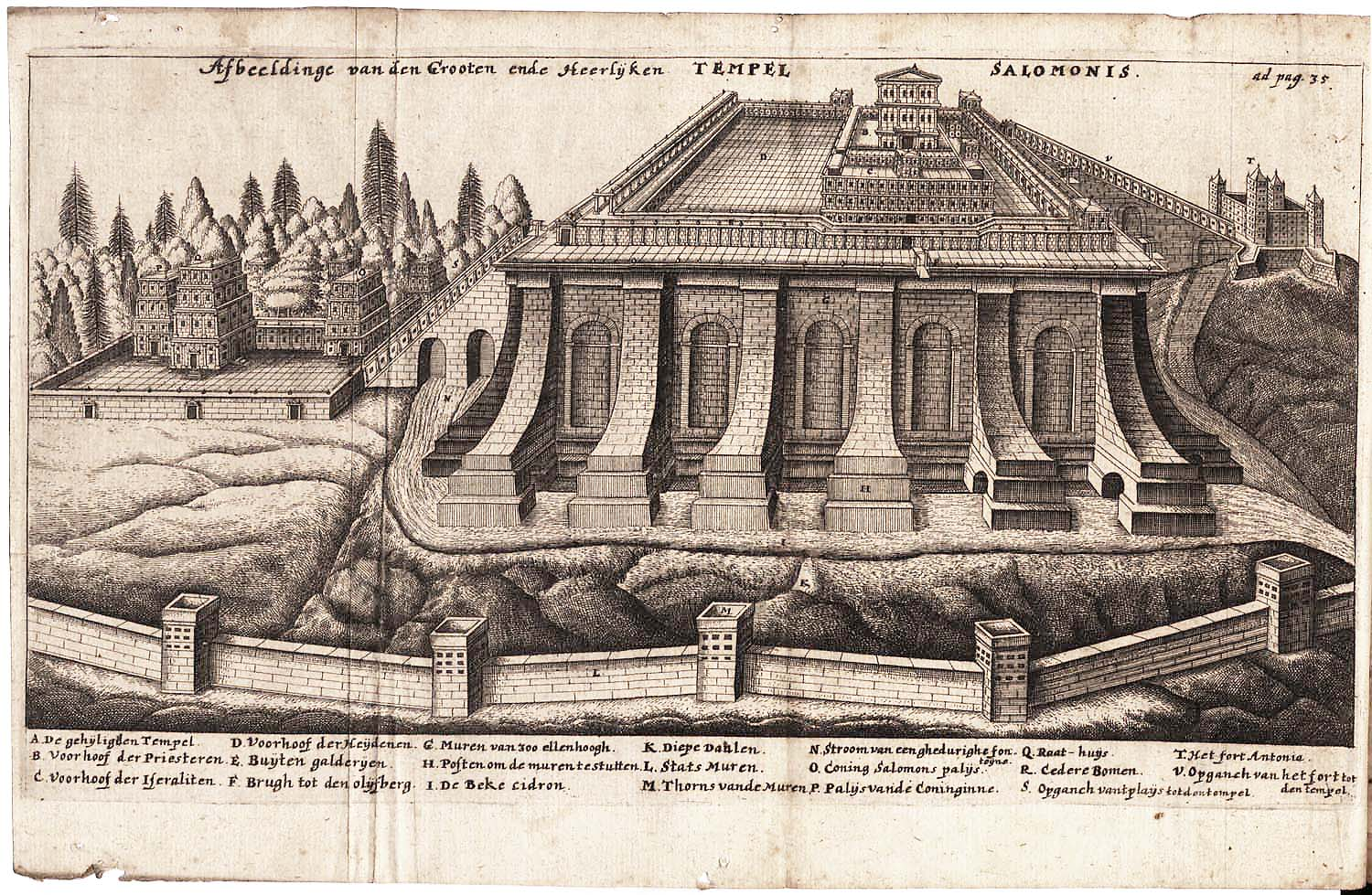 Stich aus / Engraving from Jacob Judah Leon De templo Hierosolymitano, libri IV, Helmstedt, 1665